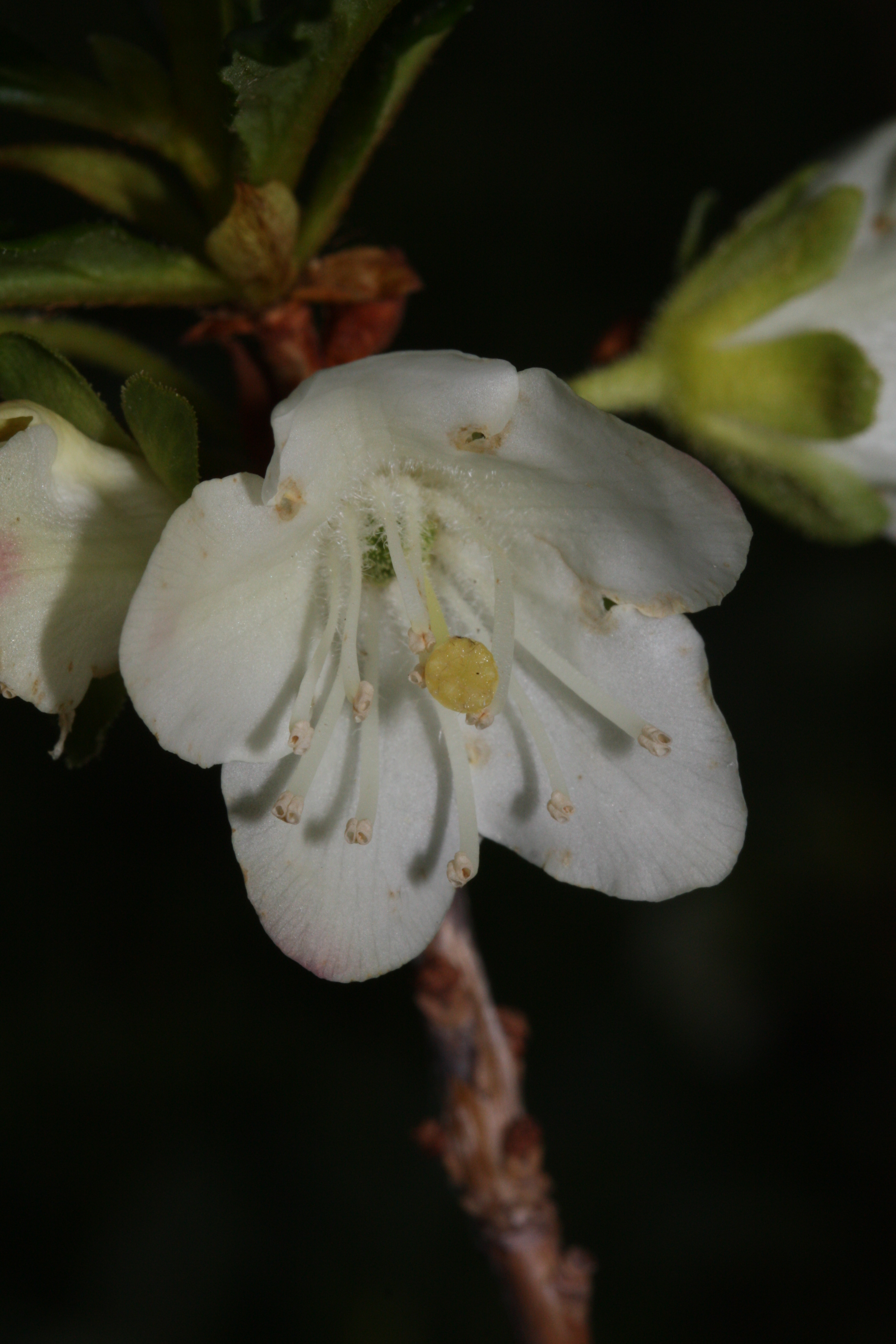 White Rhododendron, Cascade Azalea